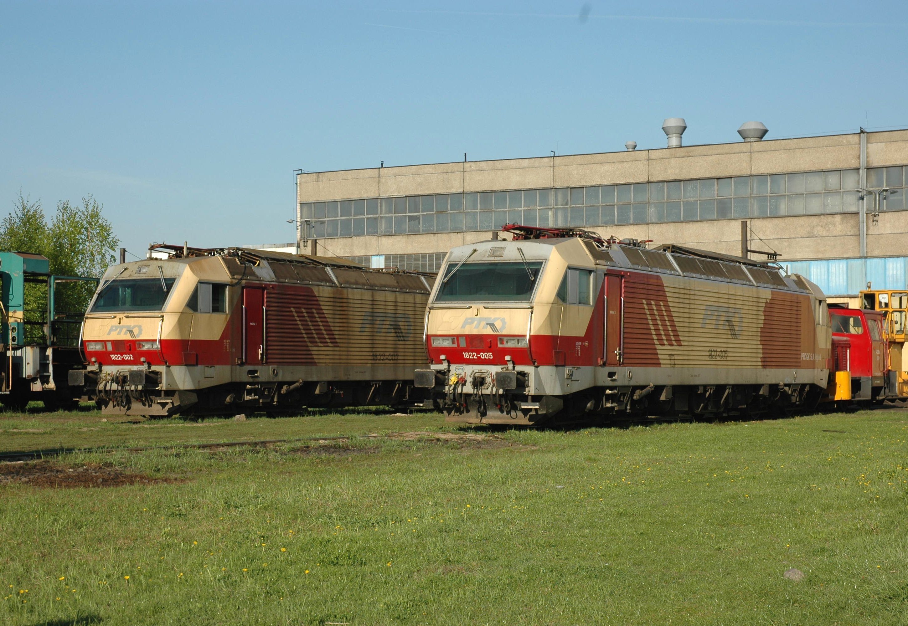 1822-002 and 1822-005 (ex ÖBB) locomotives of PCC Rail Rybnik (former PTKiGK Rybnik) railway operator, PCC Rail Tabor works, Rybnik, Poland